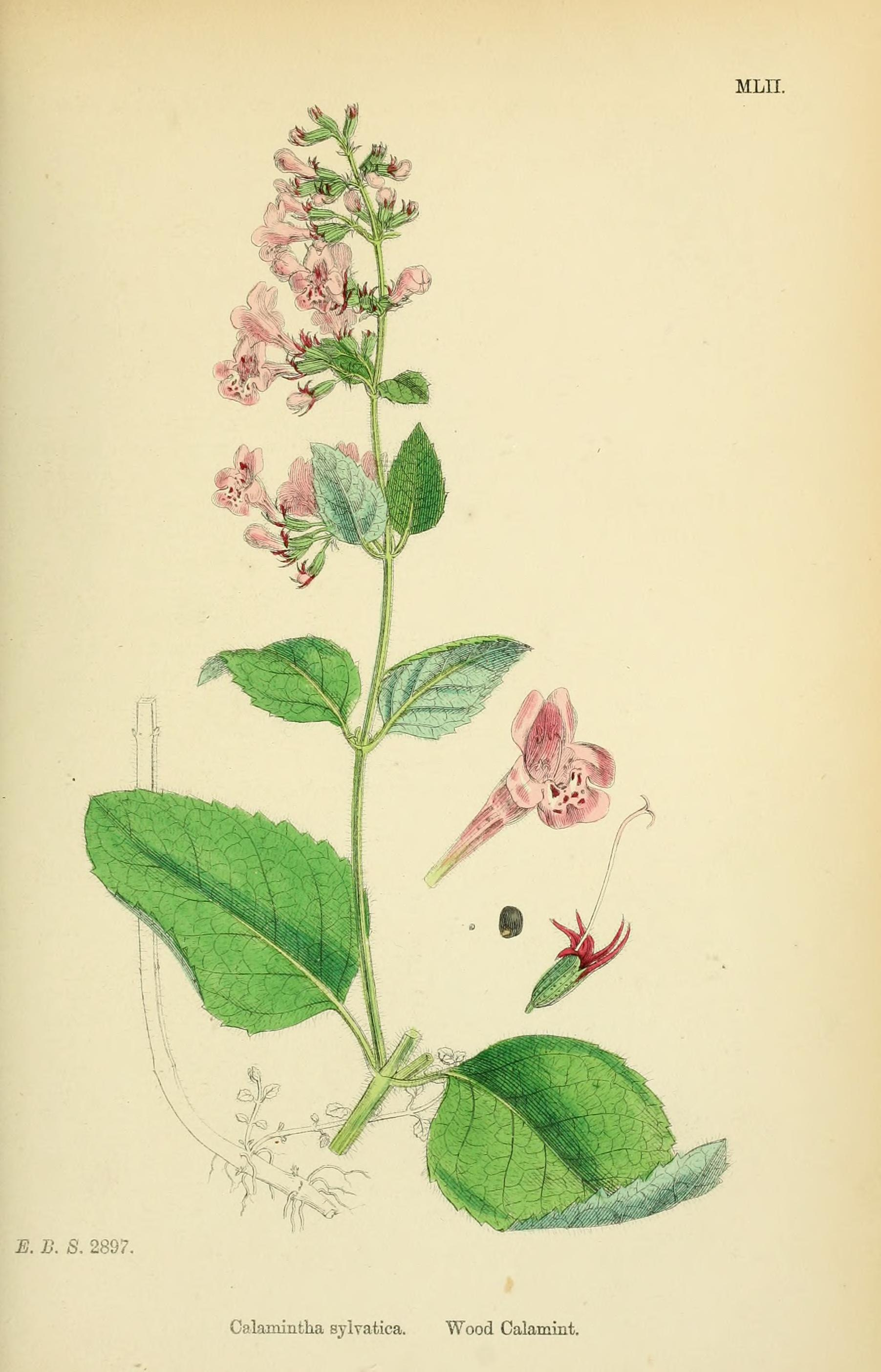 Title: English botany, or, Coloured figures of British plants Year: 1863 (1860s) Authors: Sowerby, James, 1757-1822 Boswell, John T. (John Thomas), 1822-1888 Lankester, Mrs. (Phebe), 1825-1900 Sowerby, James de Carle, 1787-1871 Salter, John William, 1820-1869 Sowerby, John E. (John Edward), 1825-1870 Subjects: Plants Plants Publisher: London : R. Hardwicke Text Appearing Before Image: g among Rubus cfesius and Nepeta Gle-choma, in Avoods on the western side of a small valley between Apes-down and Rowledge farms, rather less than 3 miles W.S.W. ofNewport, Isle of Wight. Discovered by the late Dr. Bromfieldin 1843. England. Perennial. Late Summer, Autumn. This plant is very near C. menthifolia: but the rootstock is more dis-tinctly creeping; the stems less branched, with more spreading l:)ranc)ies;the leaves larger, more o^ate, more deeply and sharply toothed,and with shorter petioles; cymes more distant and more lax, more dis-tinctly forked, with longer peduncles; calyx more narrowed towardsthe base, the upper teeth more abruptly rellexed; corolla much larger,^ to 1 inch long, purplish rose, variegated \v\i\\ white on the lowerlip, which has broader lobes; nucules broader and smoother. In both this and tlie preceding species short stolons are emitted inautumn, which take root at the base. Wood Calamint. French, Calament des Bois. German, GchmucUiche Calaminthe. MLn. Text Appearing After Image: E. L\ S. 2897. Cakmintha sylratica. Wood Calamint. (J MLin.